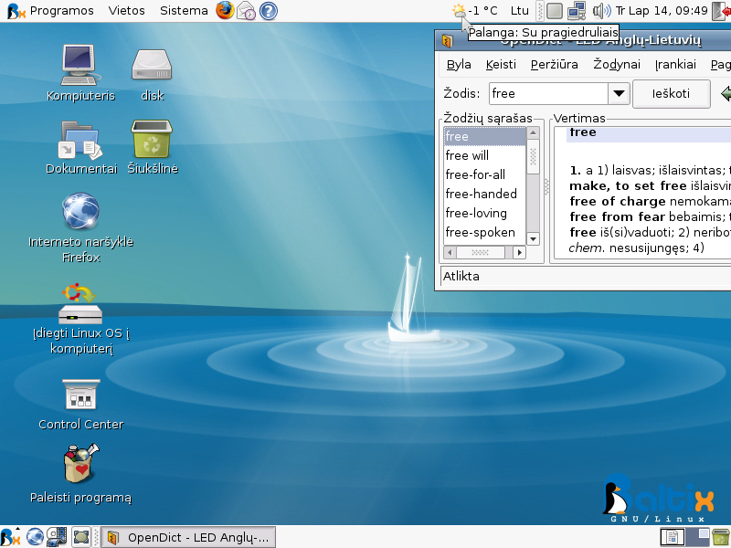 Screenshot of Baltix GNU/Linux Desktop 3.0 (based on Ubuntu Linux 7.10 ), running dictionary tool "OpenDict" in GNOME 2.20 desktop environment, small (800x600) resolution.